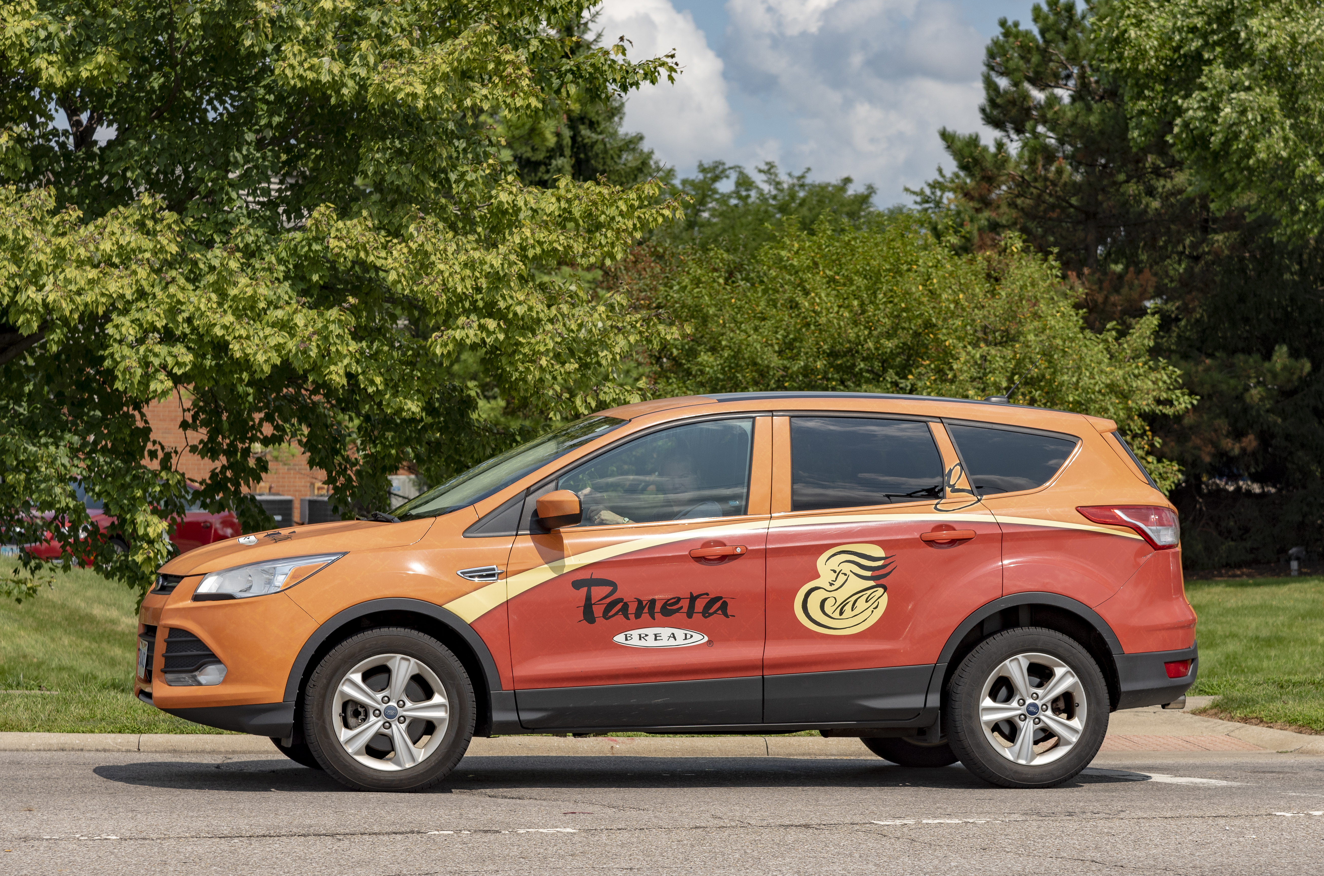 A Panera Bread delivery vehicle in Columbus, Ohio.